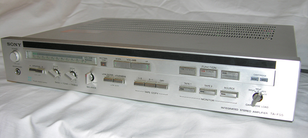 Very rare audiofile quality Sony TA-F55 integrated stereo amplifier in very good condition. Circa 1979